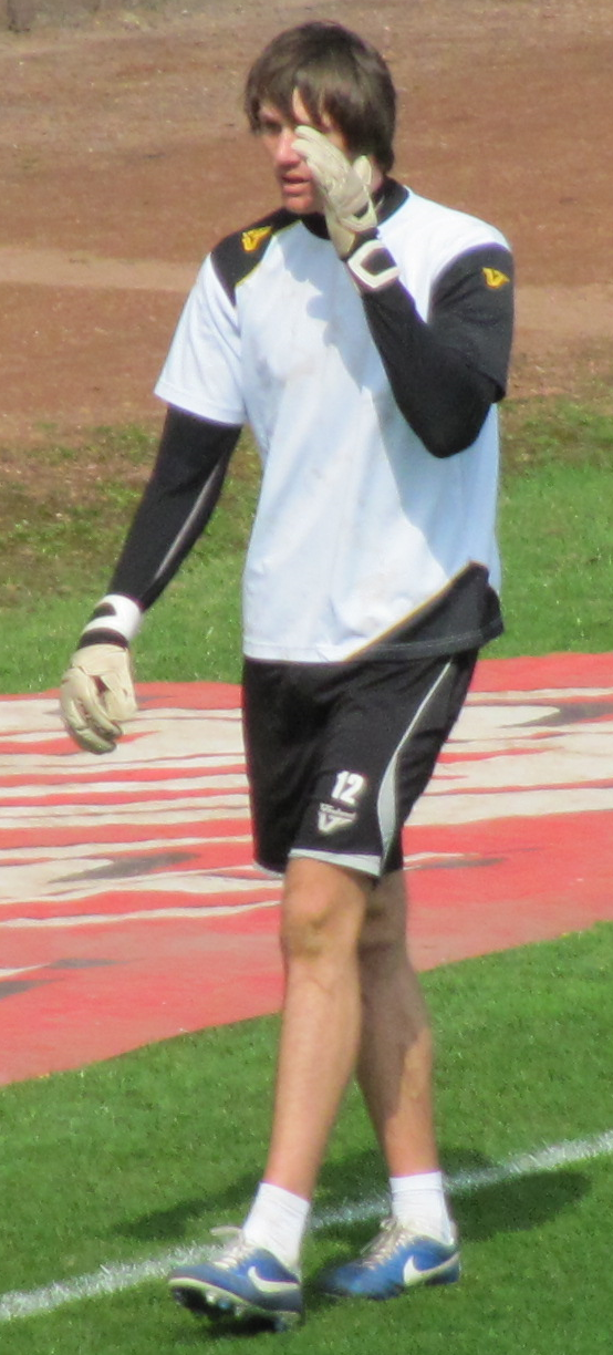 Pictured during the 2-2 draw between Port Vale and Northampton Town on 20 April 2013.